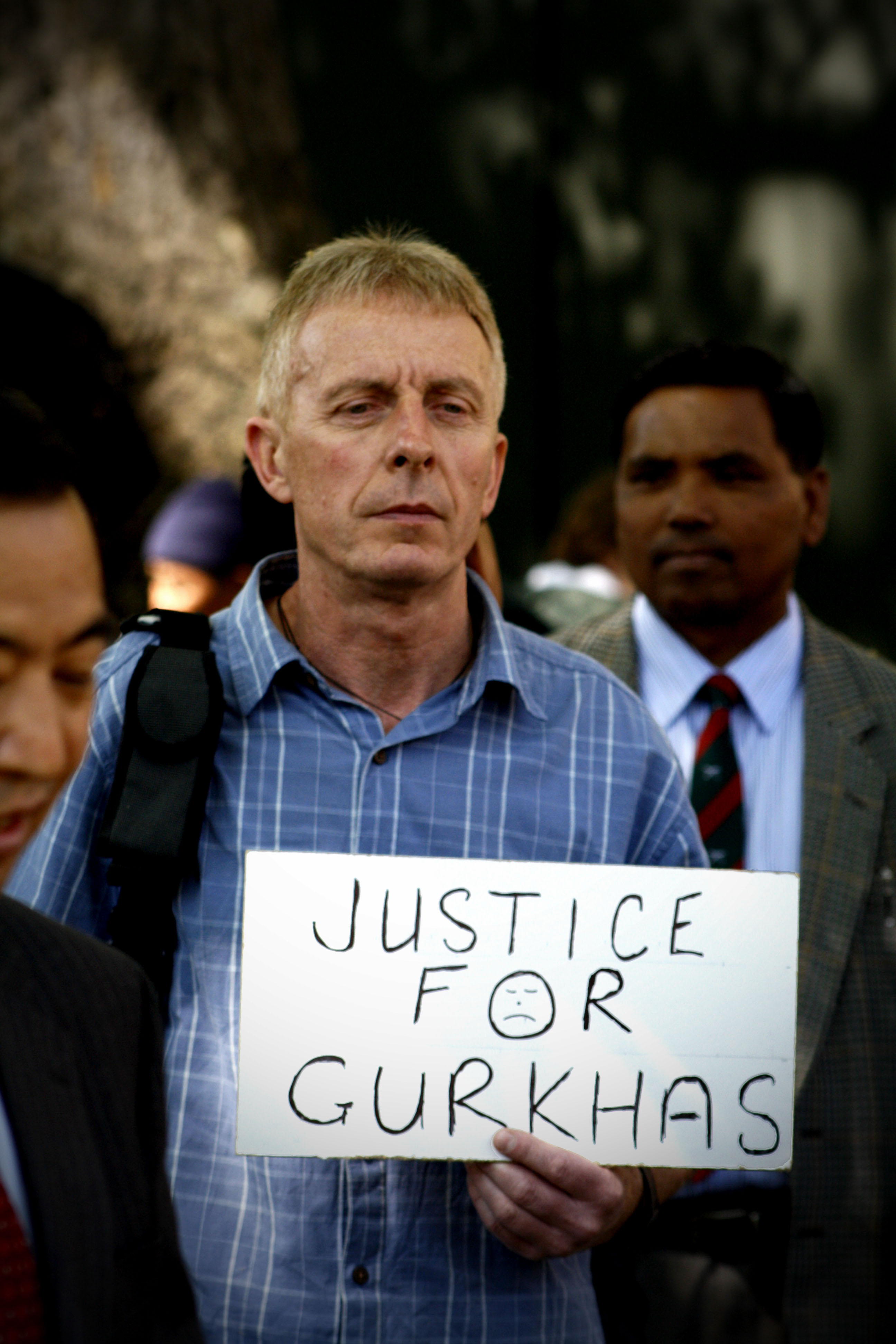 Gurkha Justice Campaign activist, holding a placard.